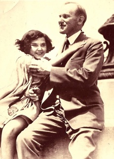 Child film star Miriam Battista sitting on President Calvin Coolidge's lap (1923)